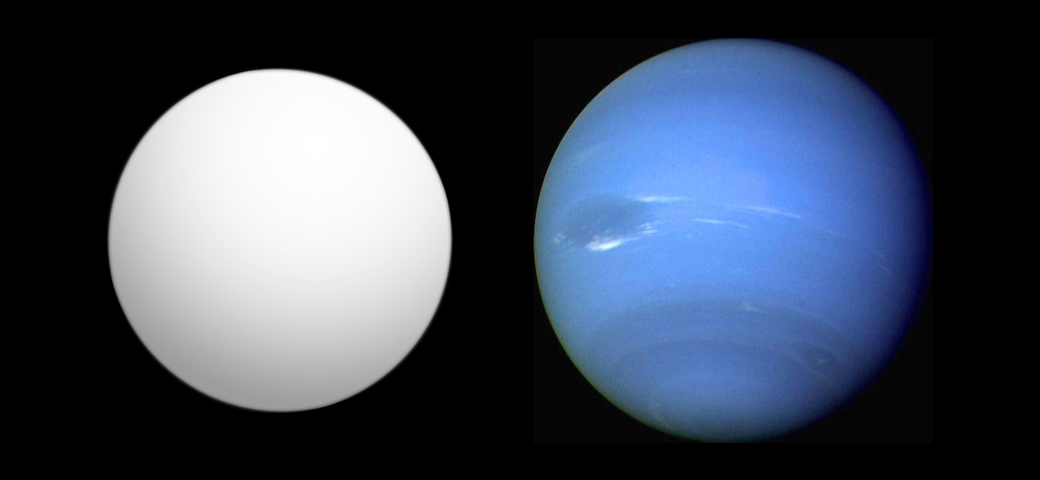 Comparison of best-fit size of the exoplanet Kepler-11 d with the Solar System planet Neptune, as reported in the Open Exoplanet Catalogue[1] as of 2010-09-30. ↑ Open Exoplanet Catalogue (2010-09-30). Retrieved on 2010-09-30.